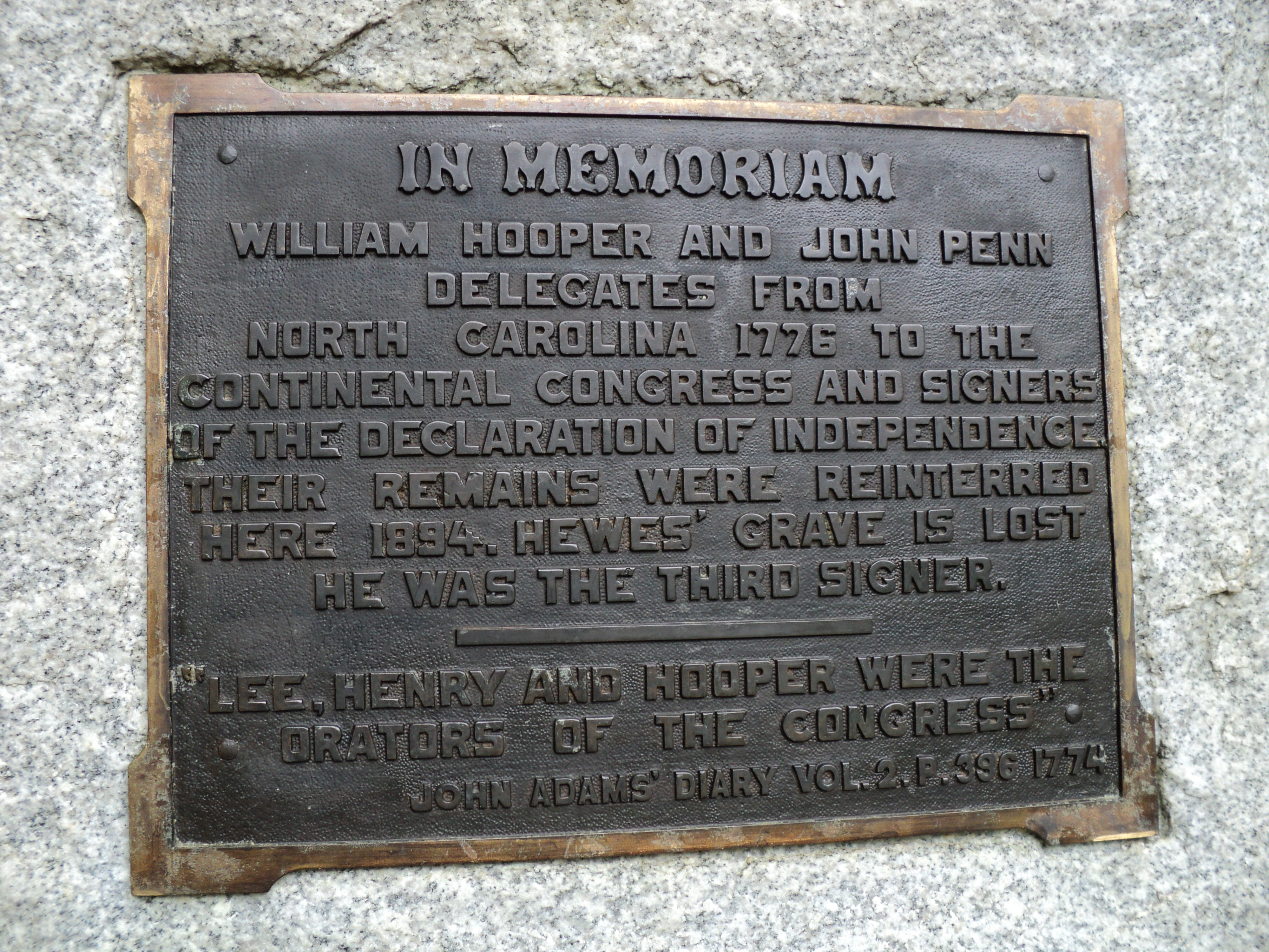 Plaque on the Signers Monument, Guilford Courthouse National Military Park, marking the location of the Battle of Guilford Court House during the American Revolutionary War (now within the boundaries of present-day Greensboro, North Carolina).